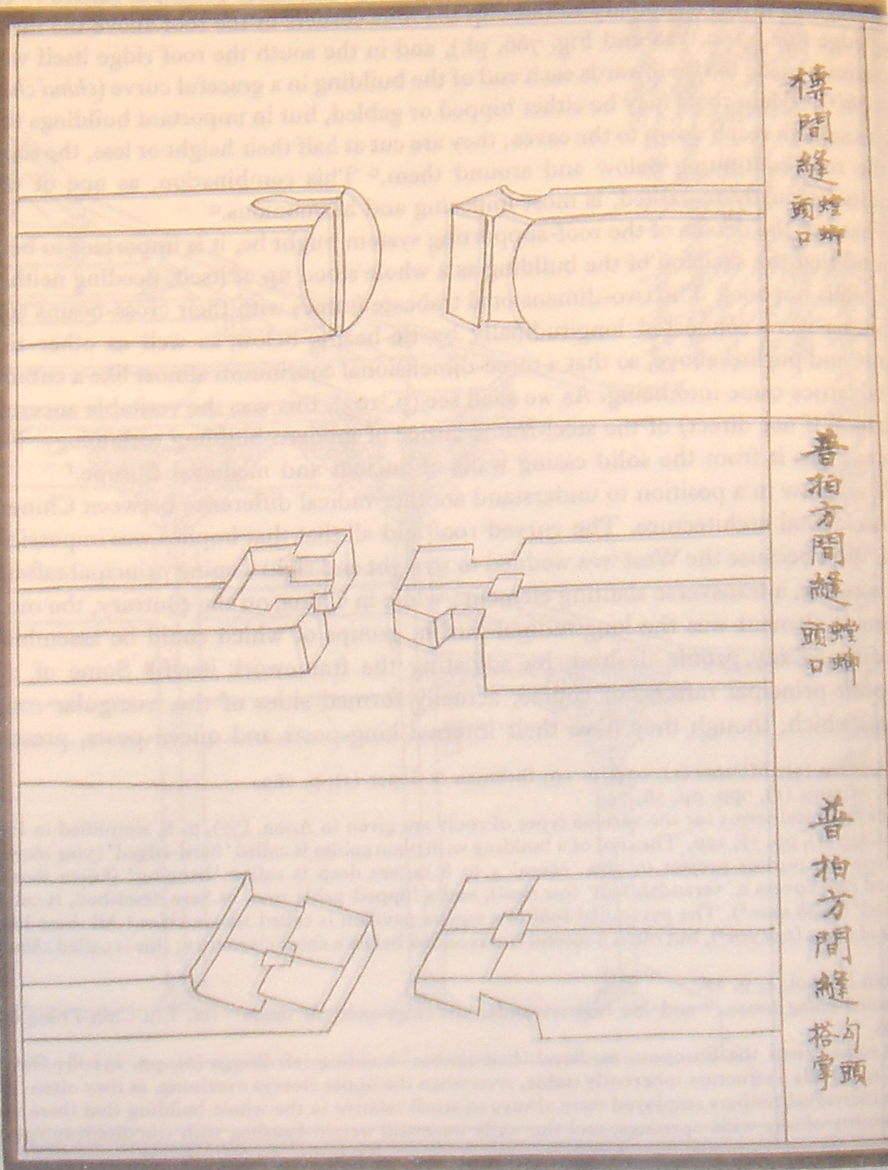 Tenon and mortice work; forms of jointing in tie beams or cross beams, from the Chinese building manual of the Yingzao Fashi, published by Li Jie in the year 1103, during the Song Dynasty. This picture appears on page 98 of Joseph Needham's book Science and Civilization in China: Volume 4, Part 3, Civil Engineering and Nautics.